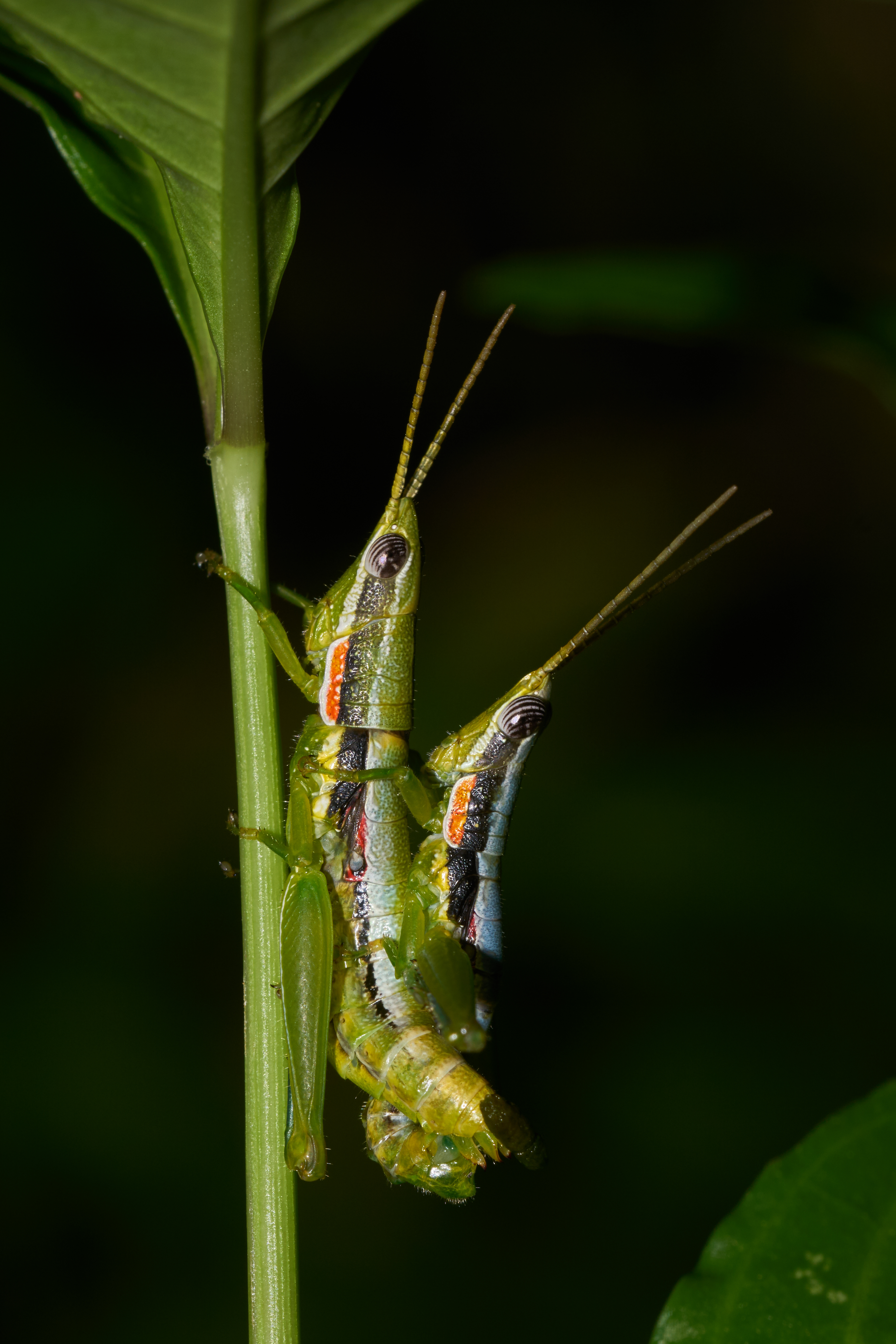 Neorthacris simulans mating pair